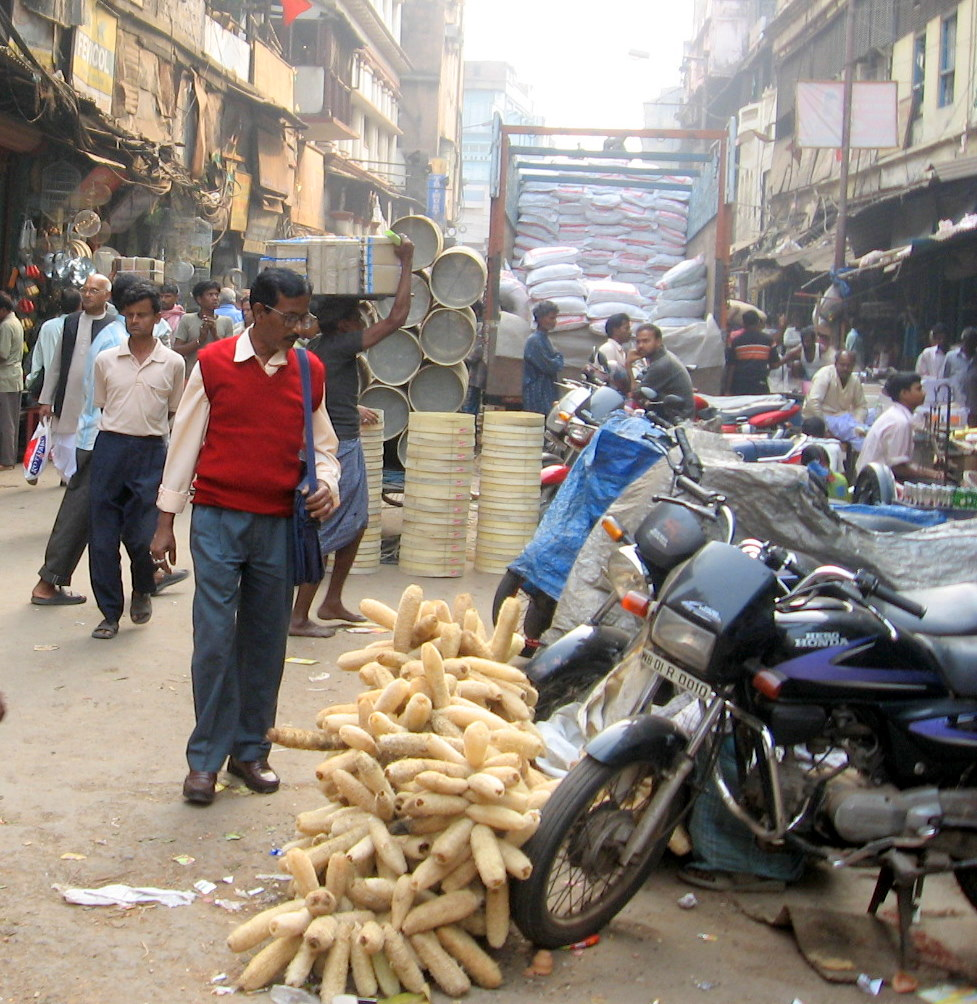 Maharshi Debendra Road, Kolkata